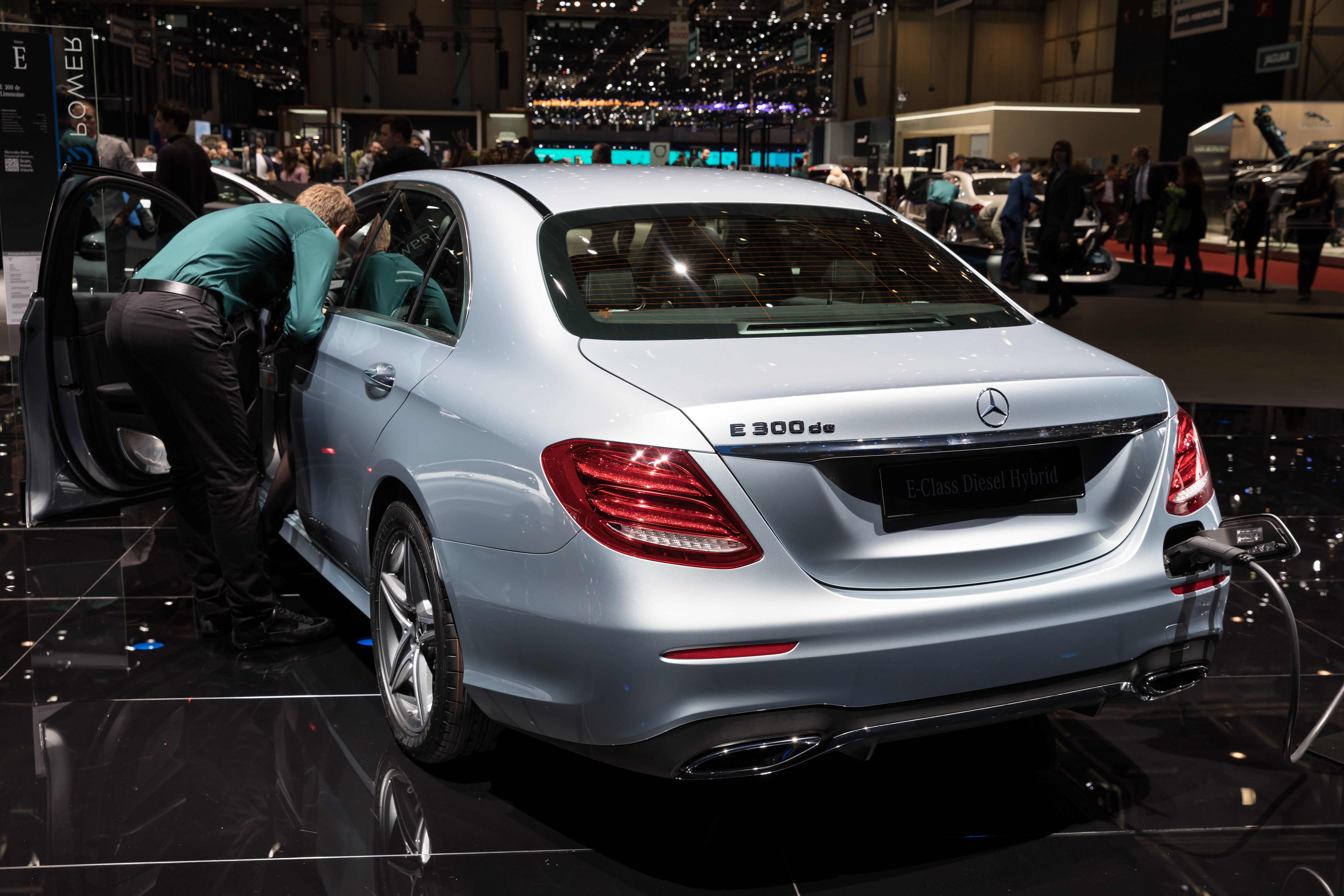 Geneva International Motor Show 2018